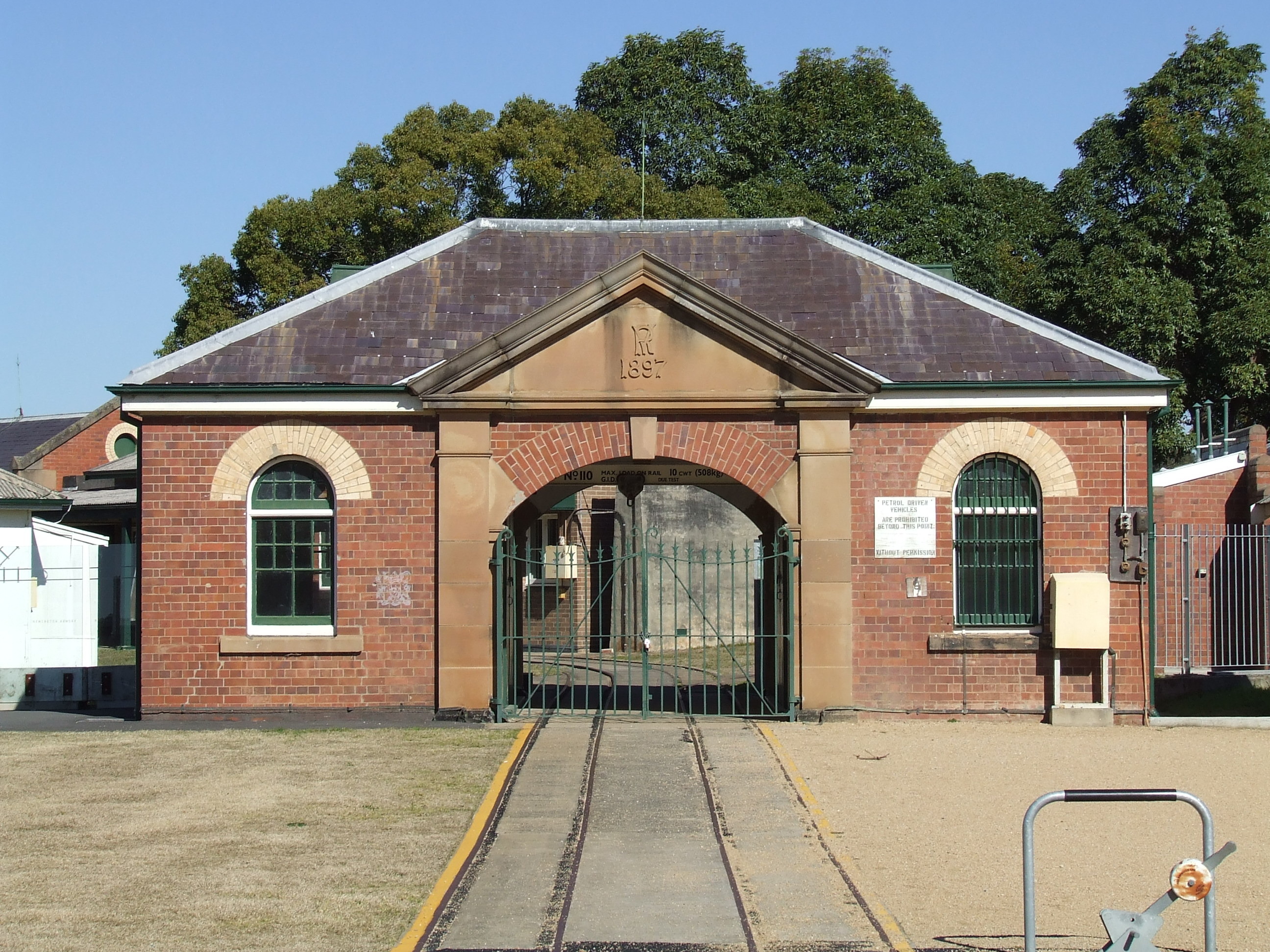 Gatehouse and the narrowgauge train tracks leading from the wharf into the old naval armory at Newington